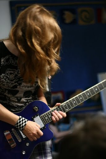 Ruby Tuesday, Rock Camp for Girls, Cottbus 2009. Camp participant playing guitar.